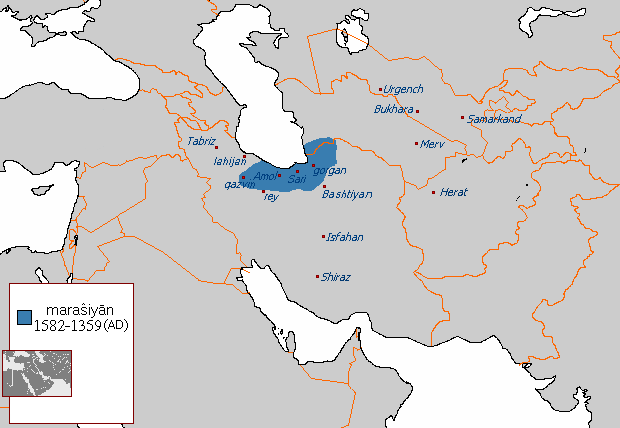 Marashiyan's government in 1359-1582AD مازِرونی: تبرستون ِمرعشیون ِحکومت ِسامون